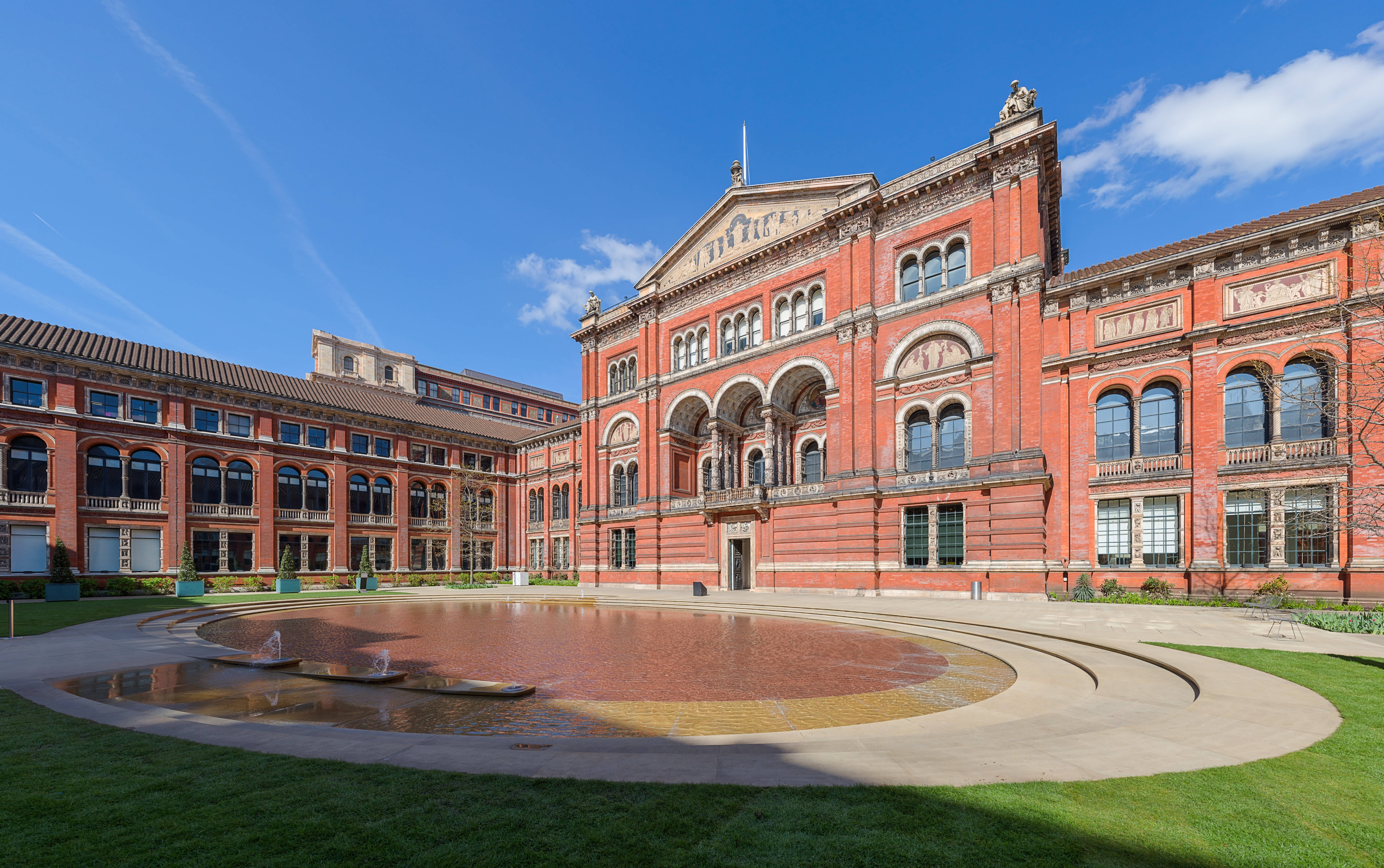 The John Madejski Garden at the Victoria & Albert Museum in London, England.